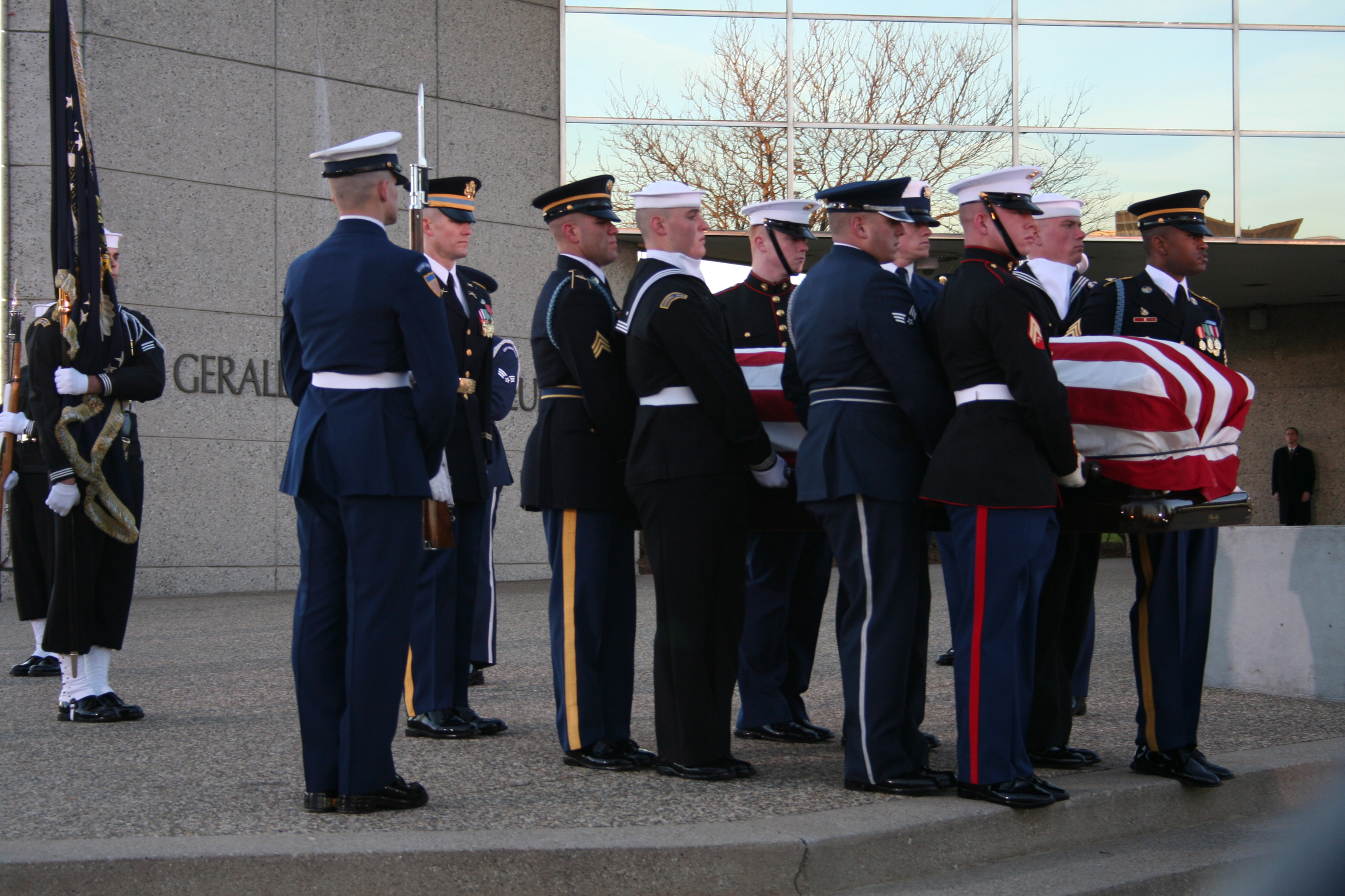 Honor guard carries former US President Gerald R. Ford's casket to his final resting place at the Gerald R. Ford Presidential Museum in Grand Rapids, Michigan.